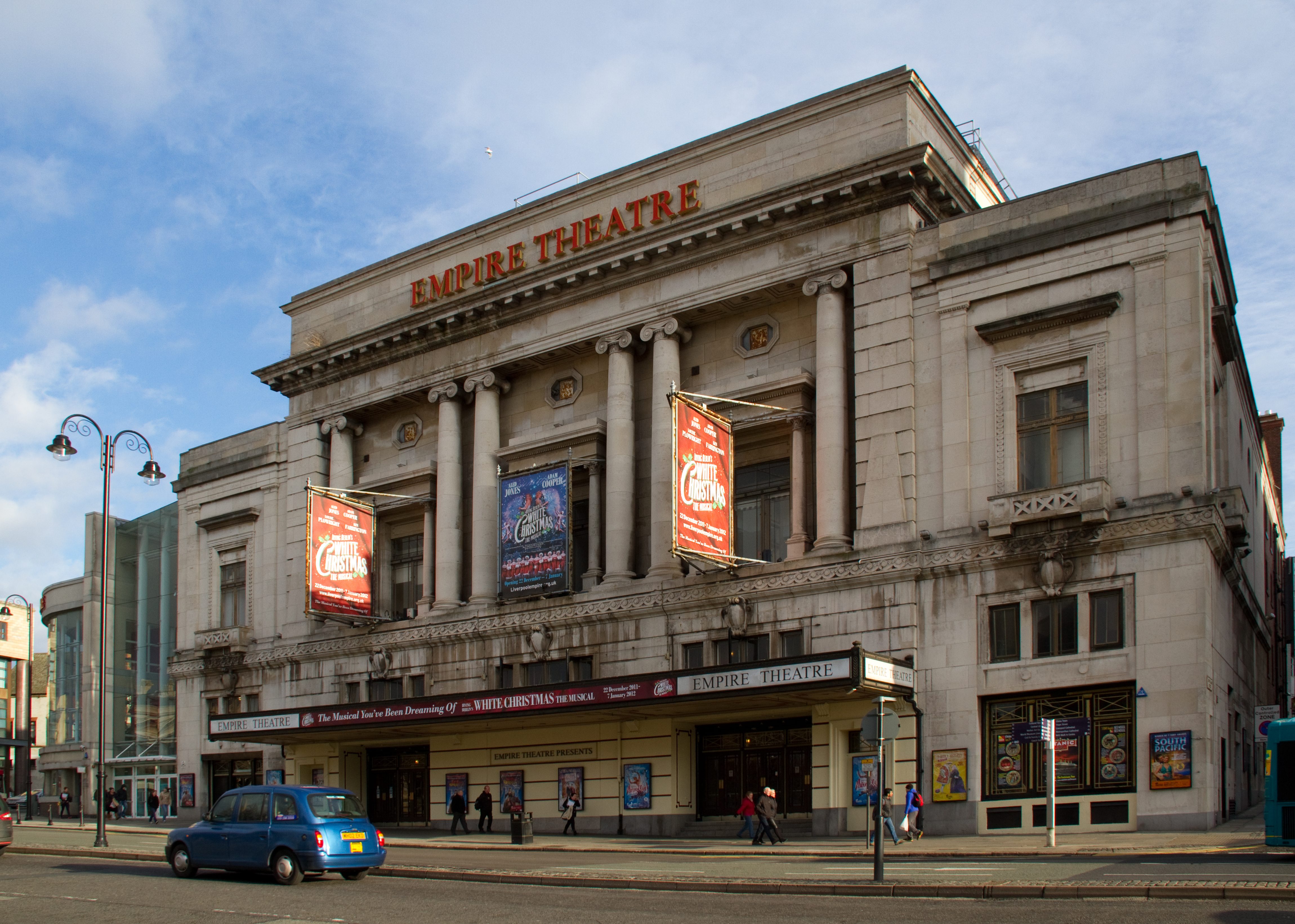 Empire Theatre Liverpool